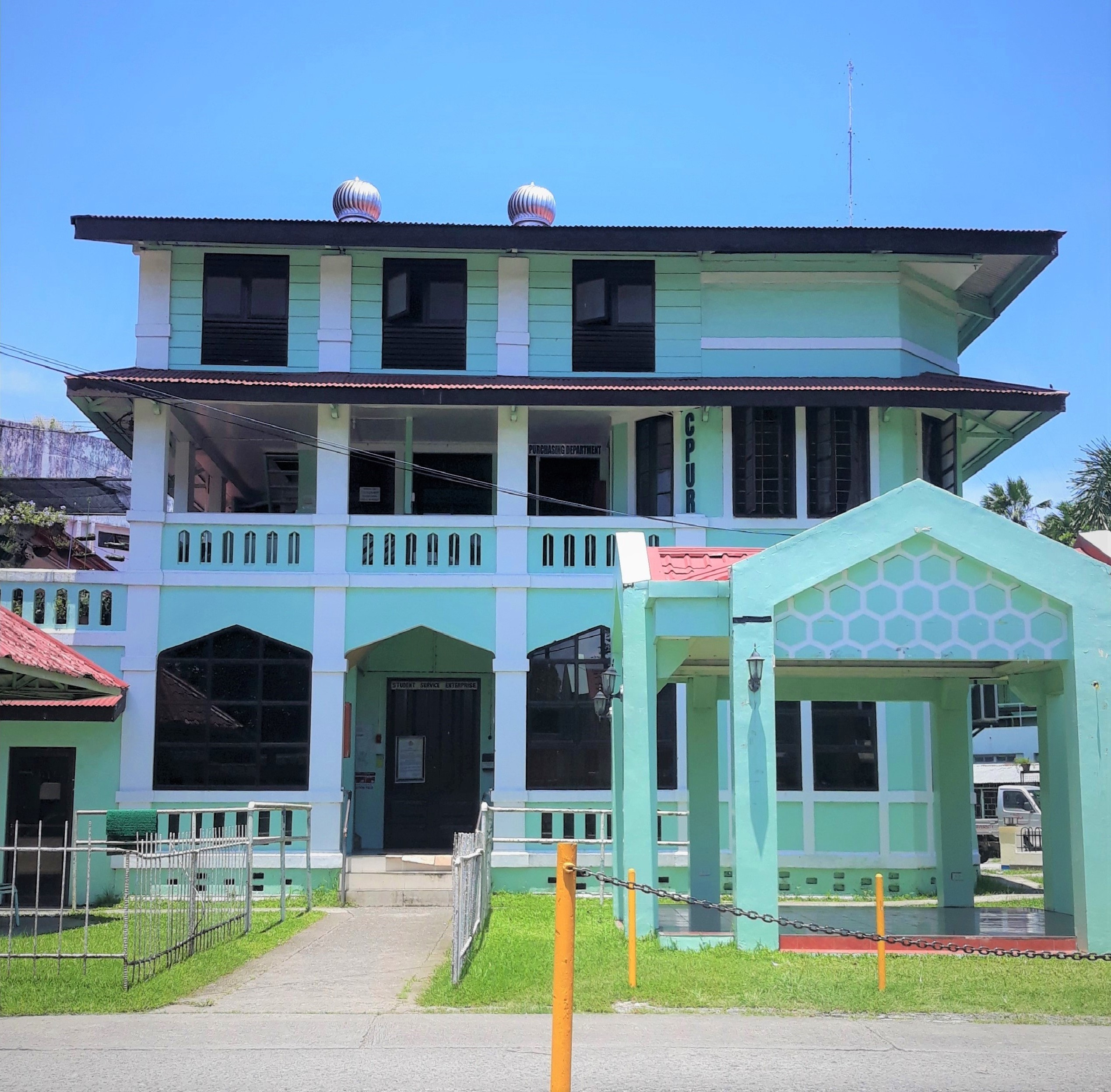 Stuart Hall at Central Philippine University's main campus houses the university's Student Service Enterprise. It was built in honor of Harland F. Stuart, a former American president of the said university.